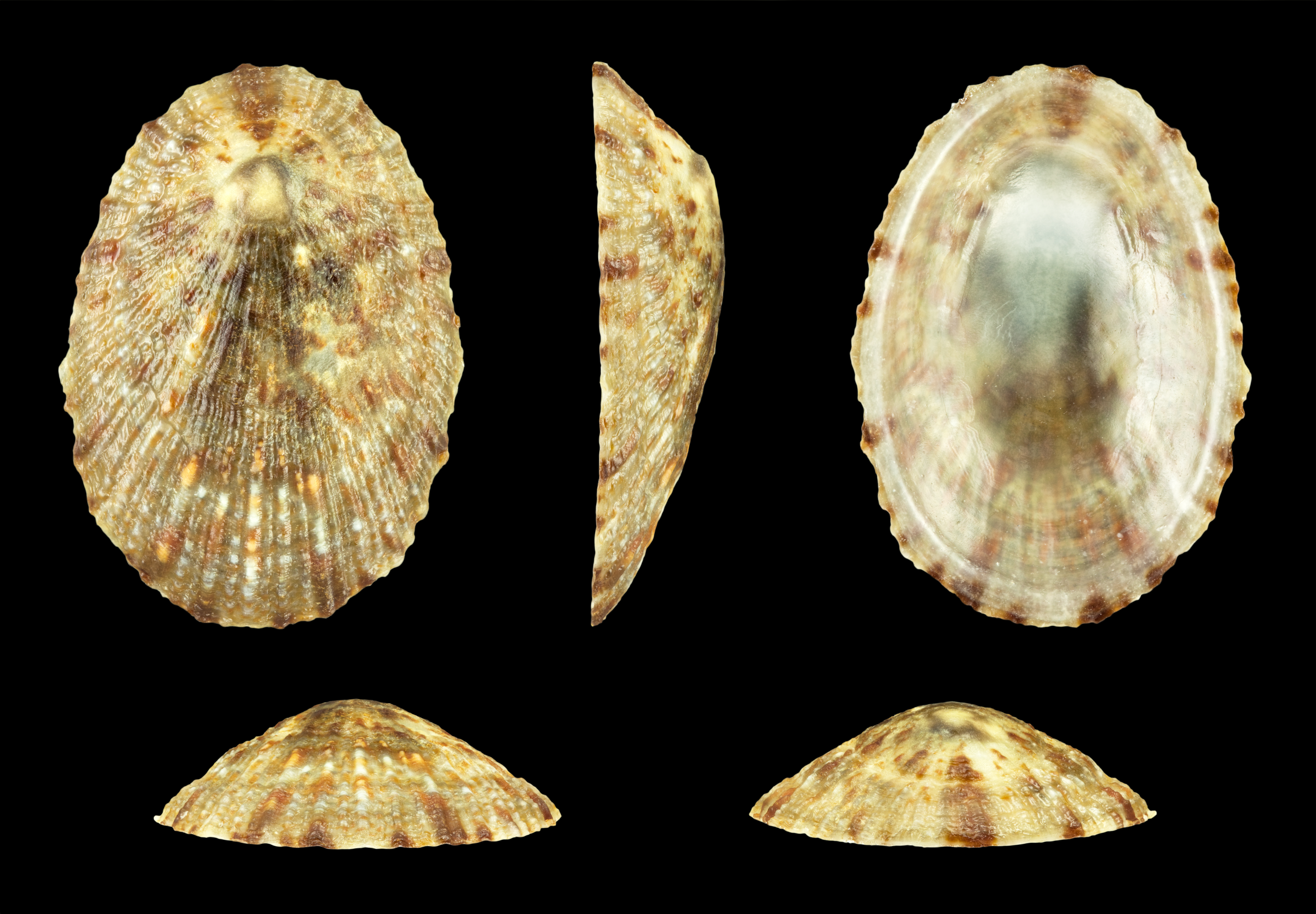 Cellana toreuma (Reeve, 1854); Length 2.2 cm; Originating from Wakayama, Japan; Shell of own collection, therefore not geocoded.